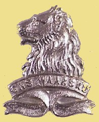 Badge of the South African infantry battalion known as Regiment de la Rey. The lion was chosen because the Boer General, Koos de la Rey, was known as the "lion of the West"